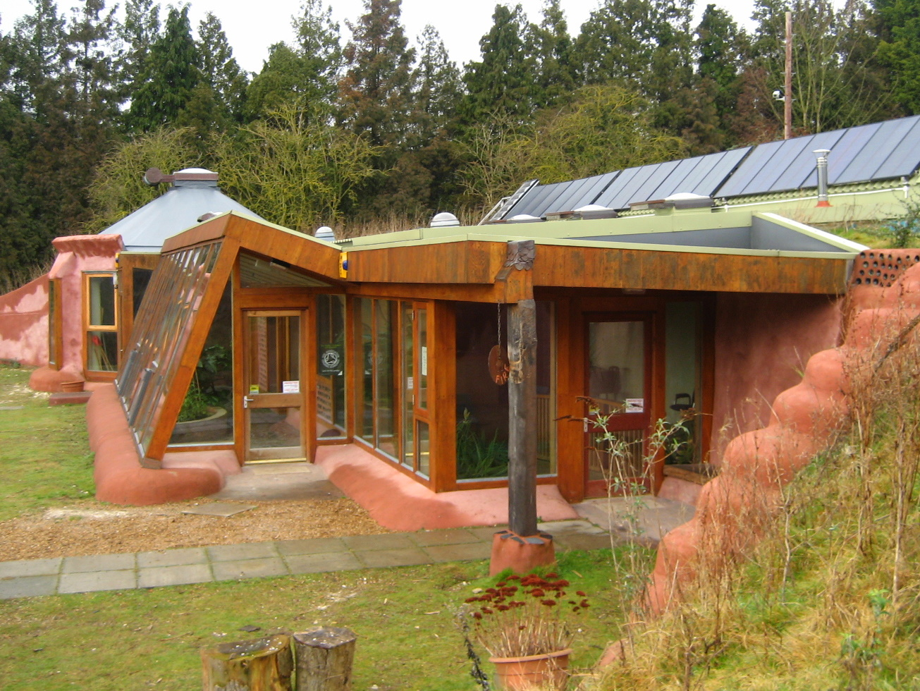 Image of the Earthship at Stanmer Park in Brighton, UK